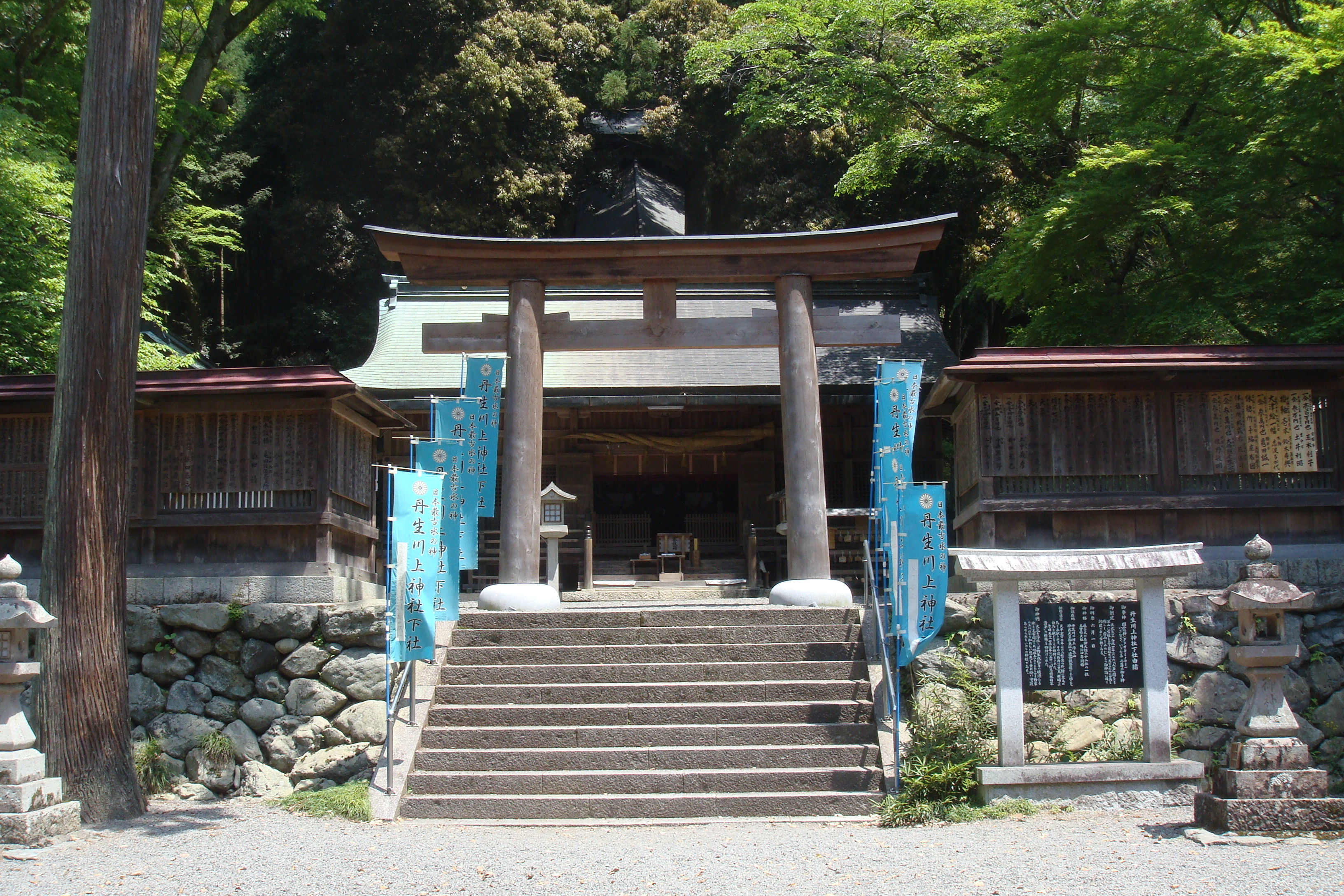 niukawakami_shrine_simosha